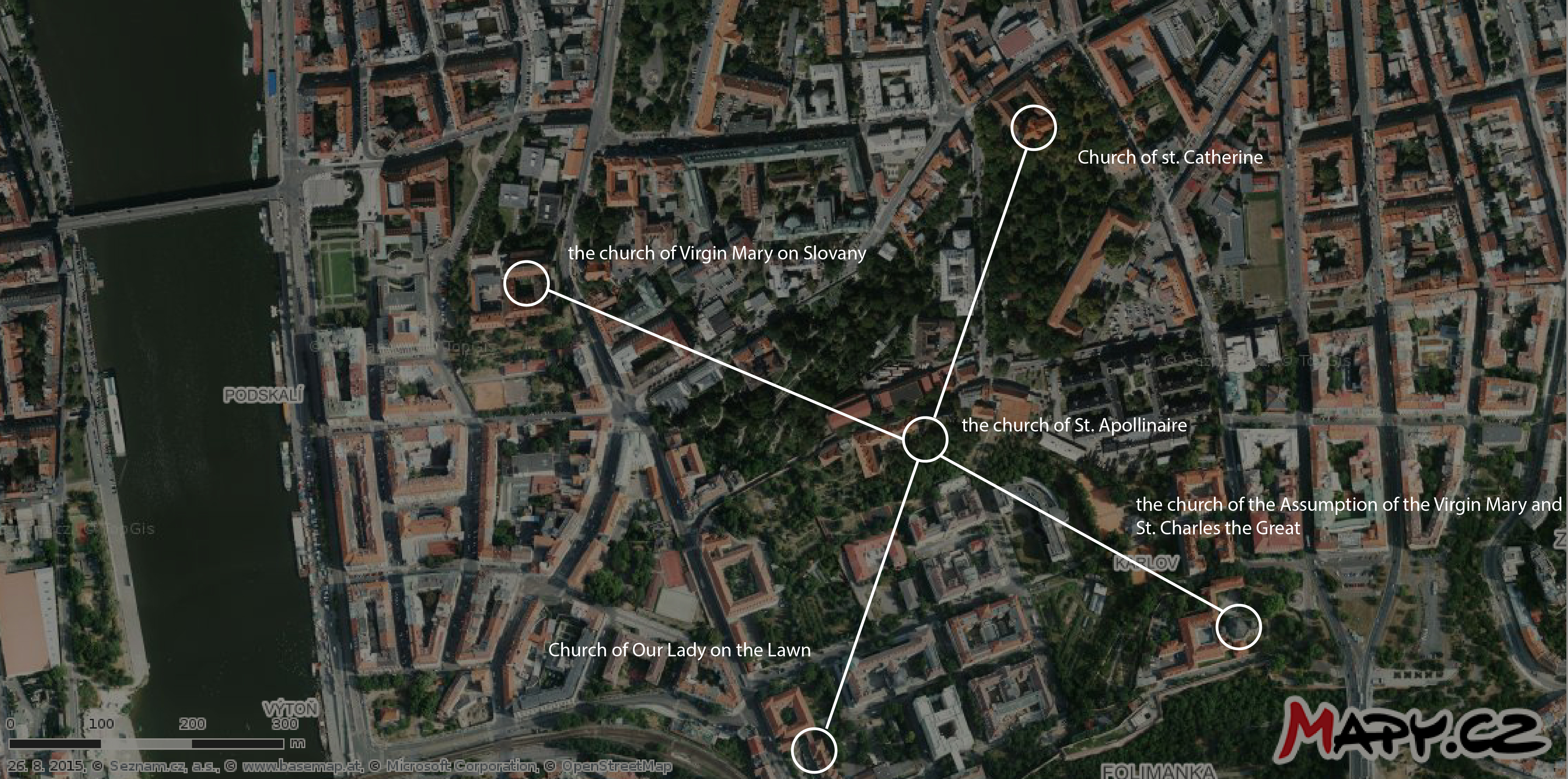 Map of the city showing the churches of New Town